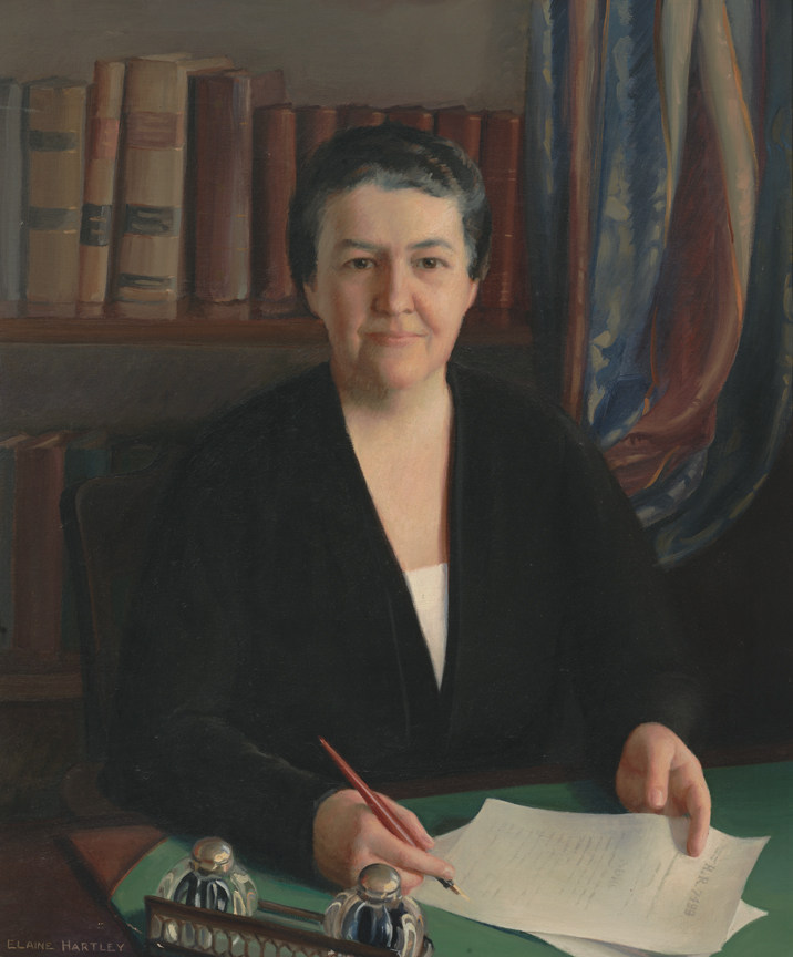 Mary Teresa Norton, member of the United States House of Representatives.